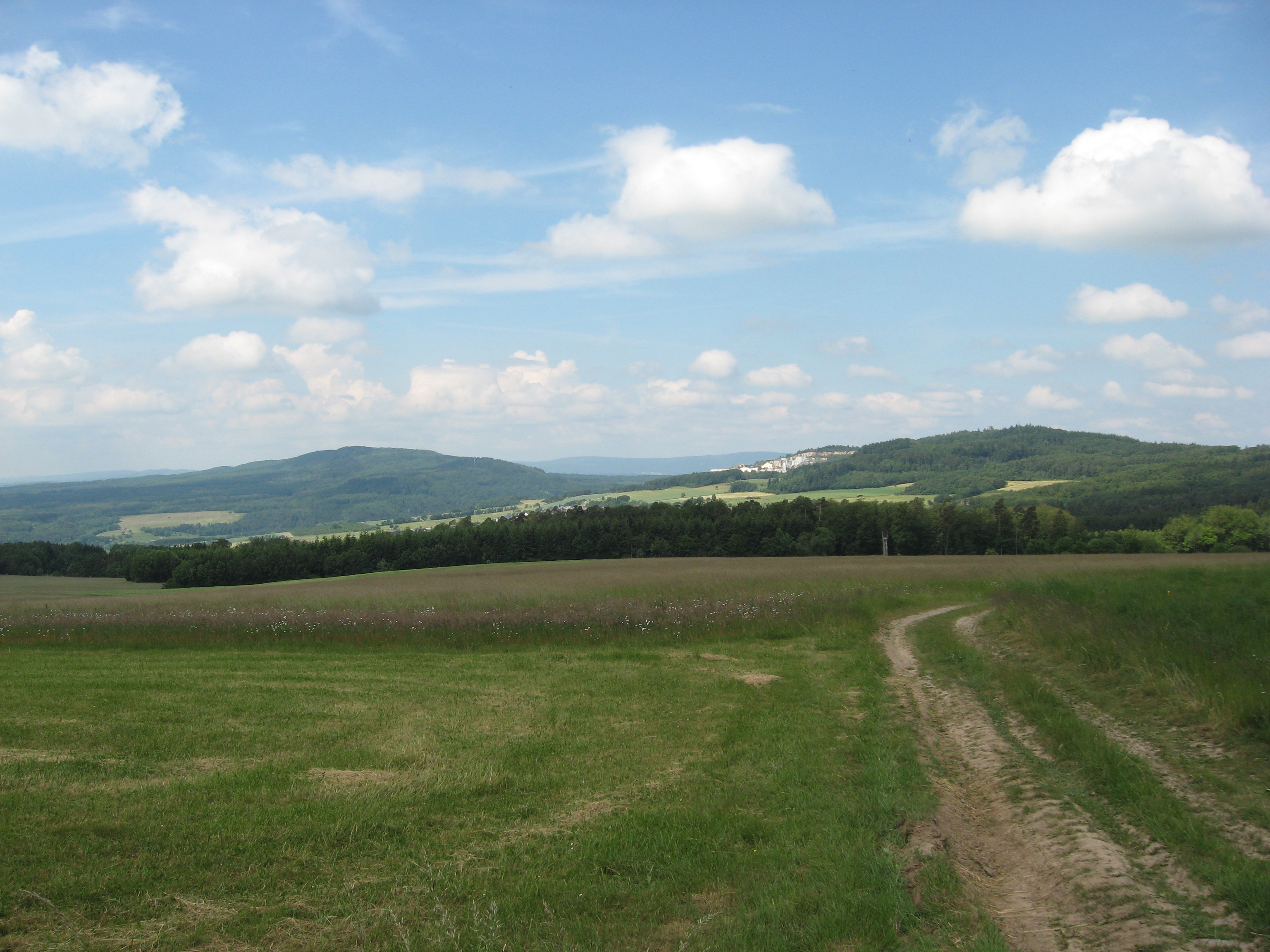 Soonwaldsteig near Henau; it leads over the Koppensteiner Höhe (right) to the Womrather Höhe in Lützelsoon (left)